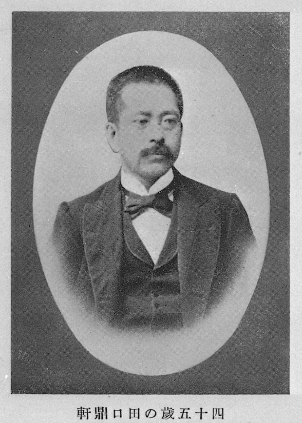 Portrait of Taguchi Ukichi (田口卯吉, 1855 – 1905)